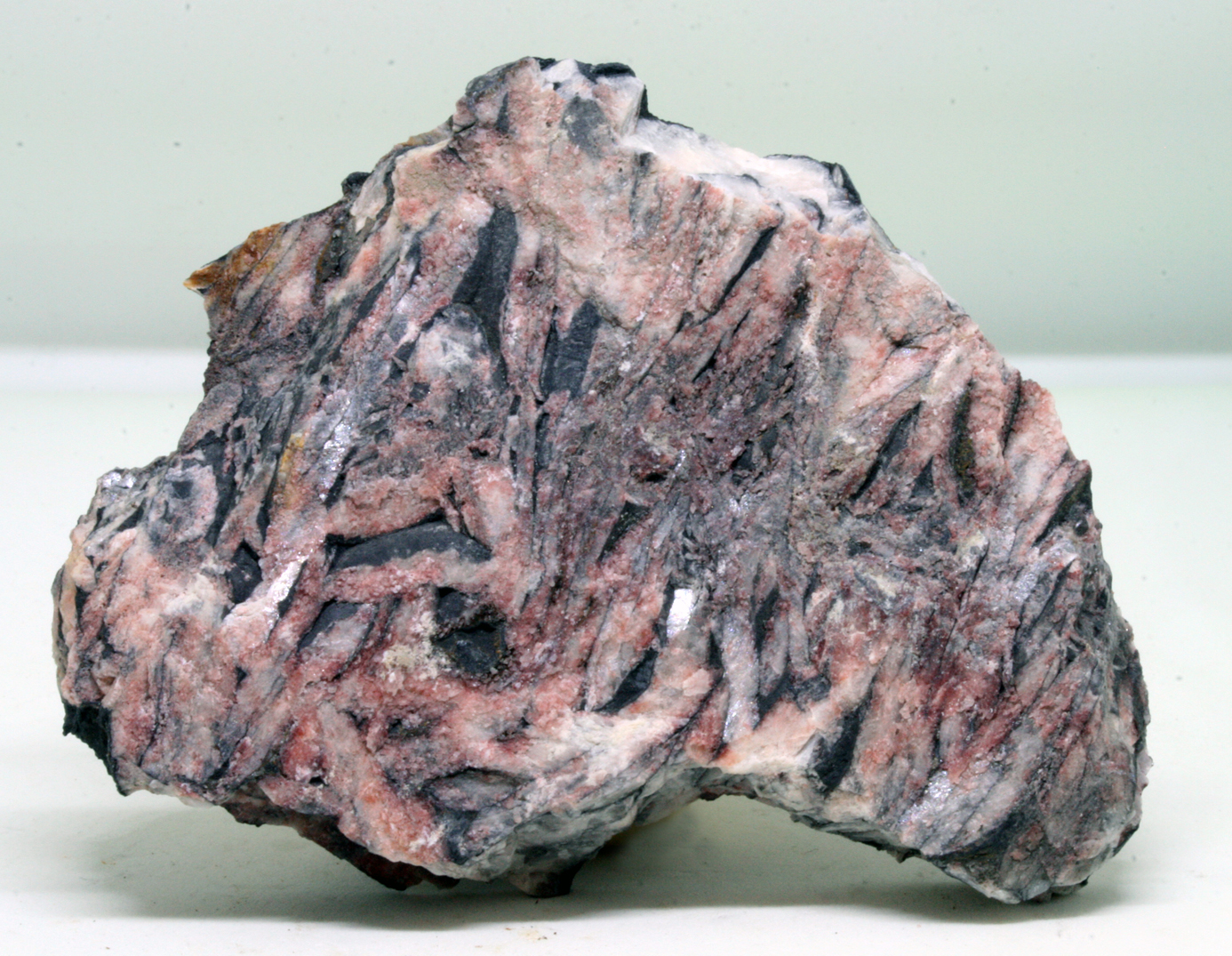 Sections of magnesite crystals. Corta quarry, Eugui, Esteribar (Navarra) Spain